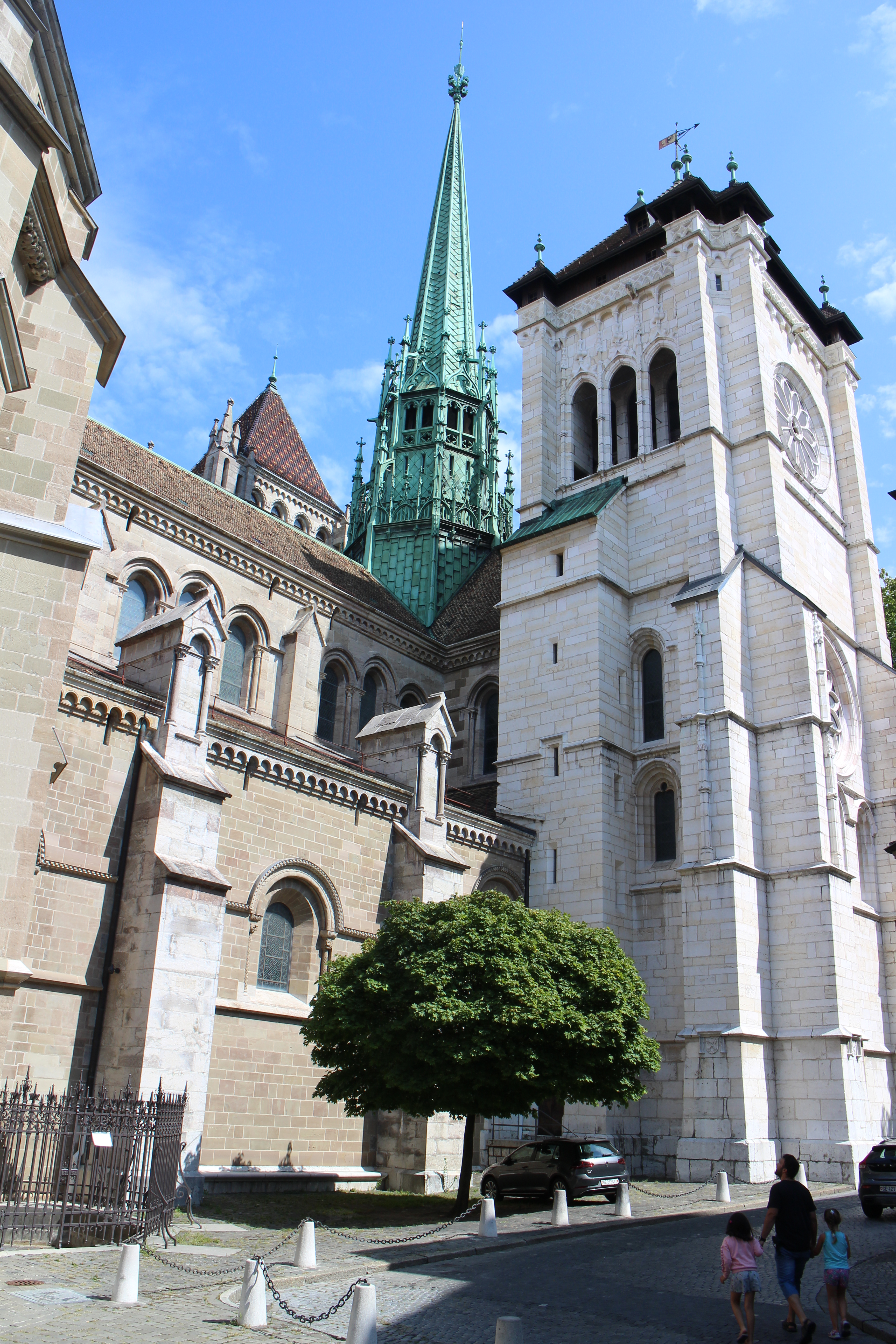 Towers of Saint-Pierre cathedral, Geneva